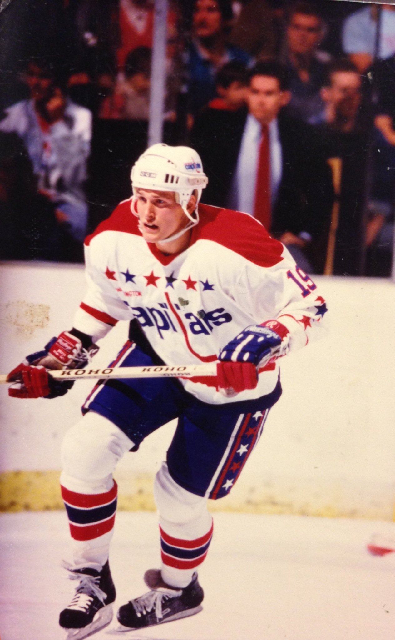 John Druce, Canadian Professional Hockey Player, NHL Playoff Legend.